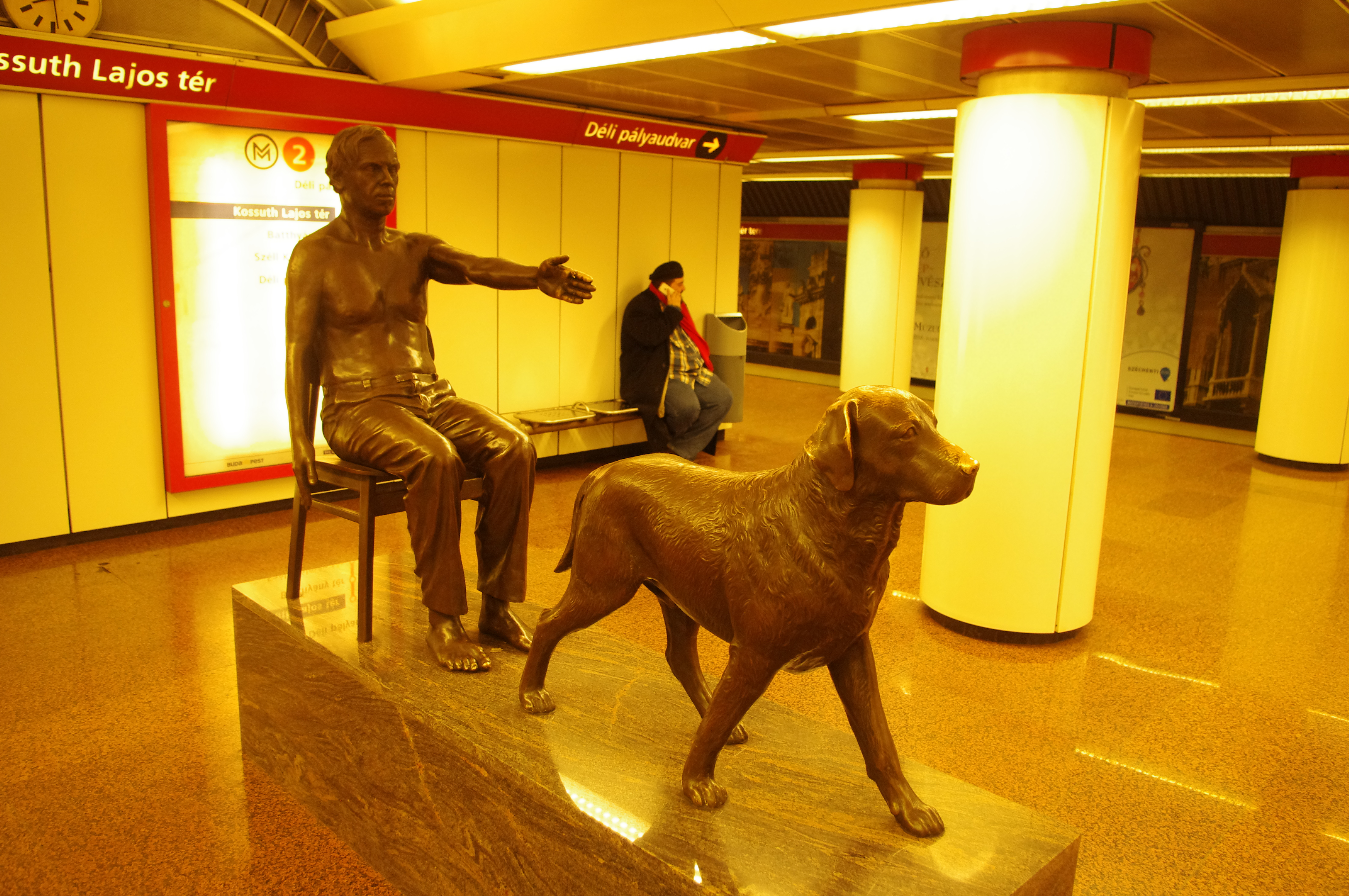 Monument of man with dog at Budapest metro station Kossuth Lajos tér